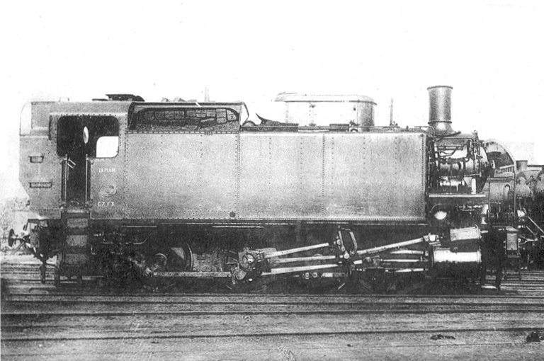 Nord 040 4-2029 next SNCF 040 TG 14